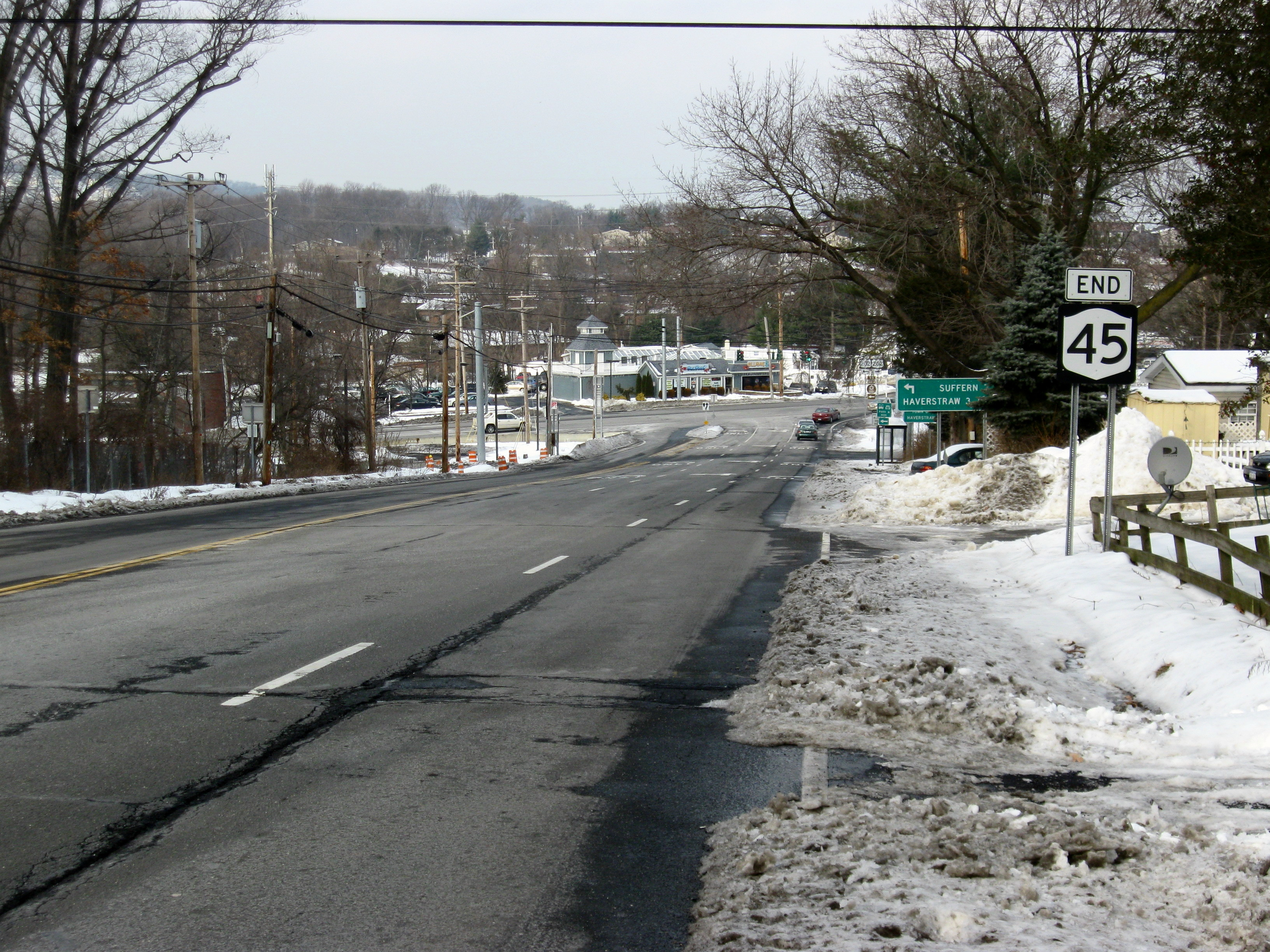 The northern terminus of New York State Route 45 at US 202 in northern Pomona near Mount Ivy.